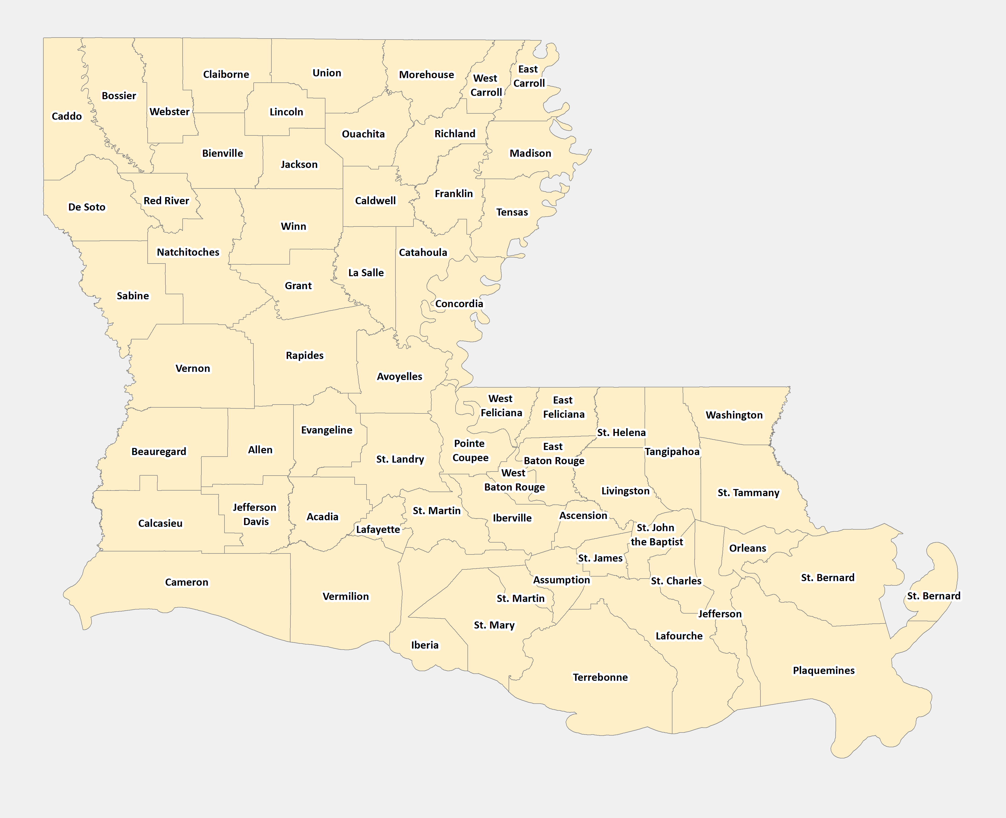 Political boundaries of parishes in Louisiana